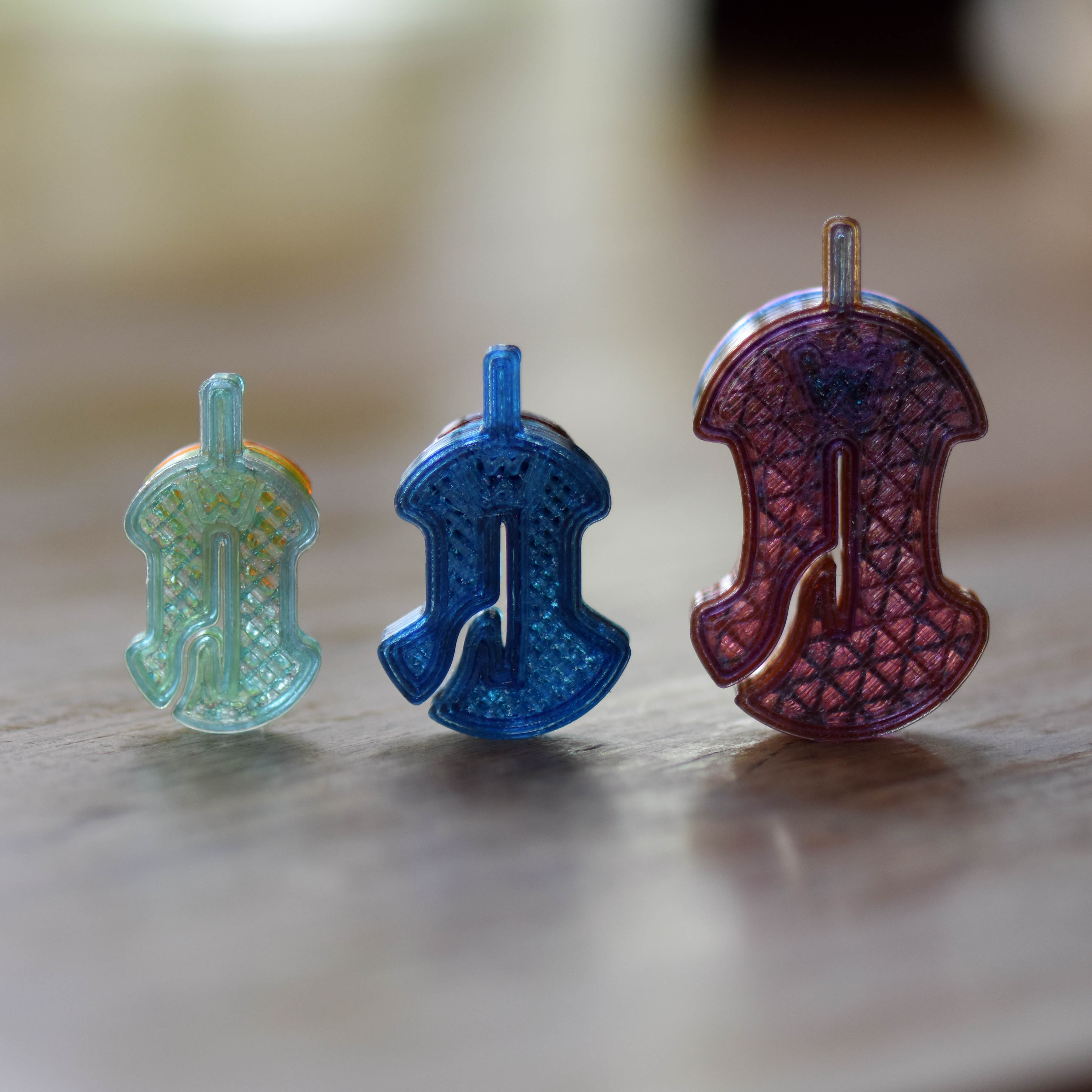 Modern 3D-printed single string mute